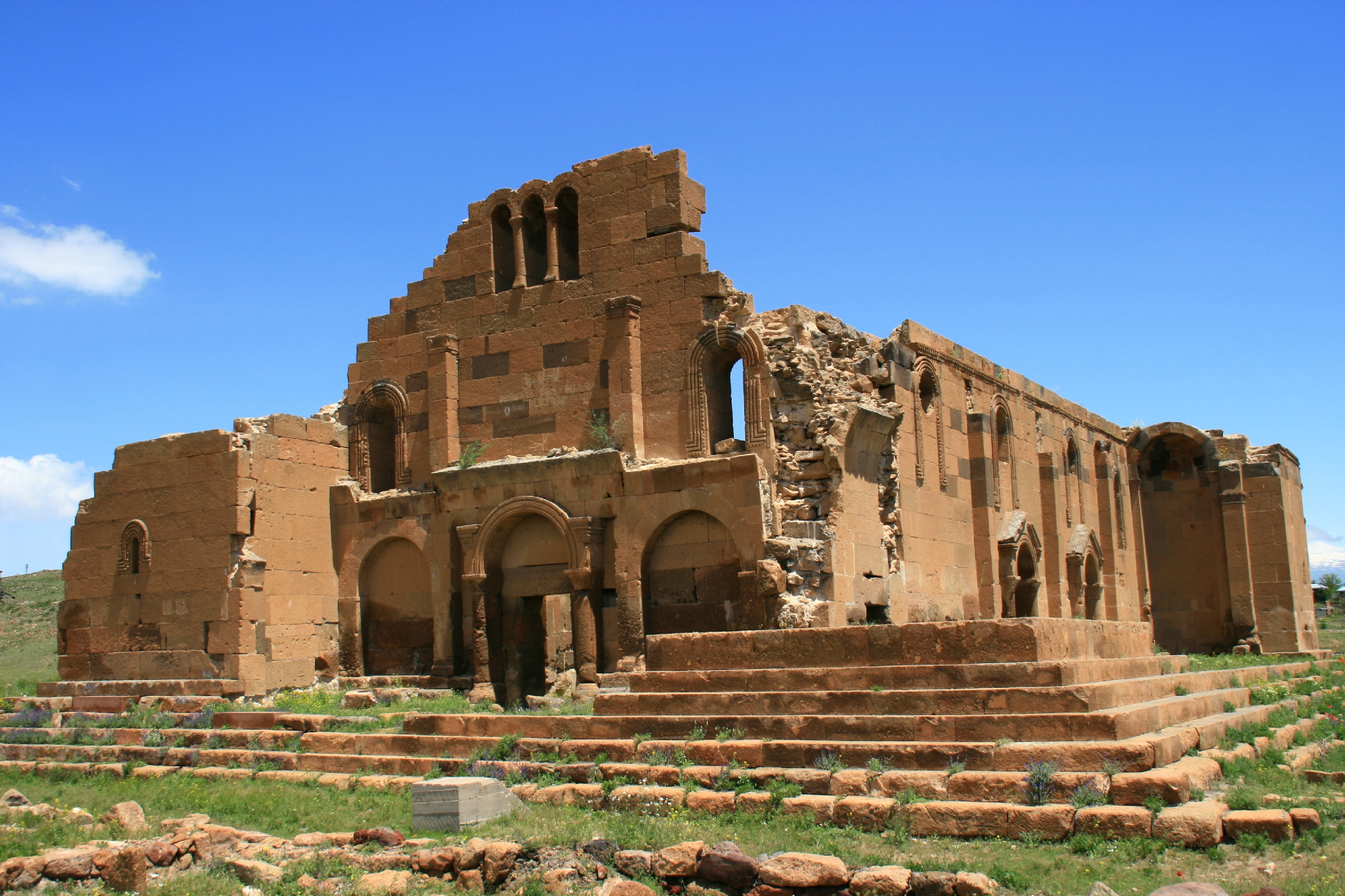 Երերույքի Տաճար 13/2.7